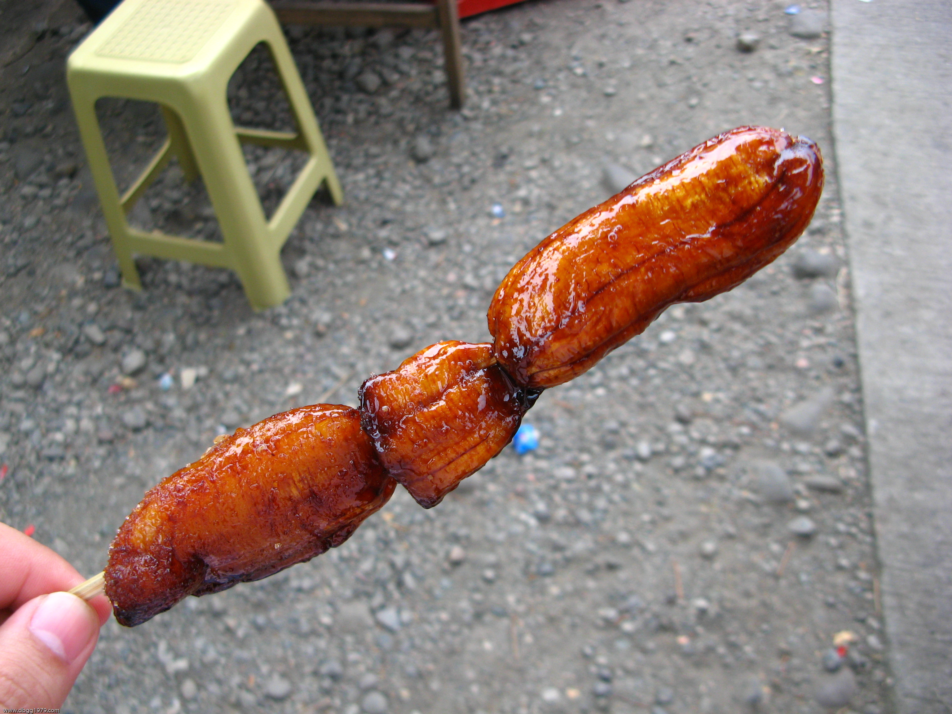 This is an image that is going to use in the article "banana que" at